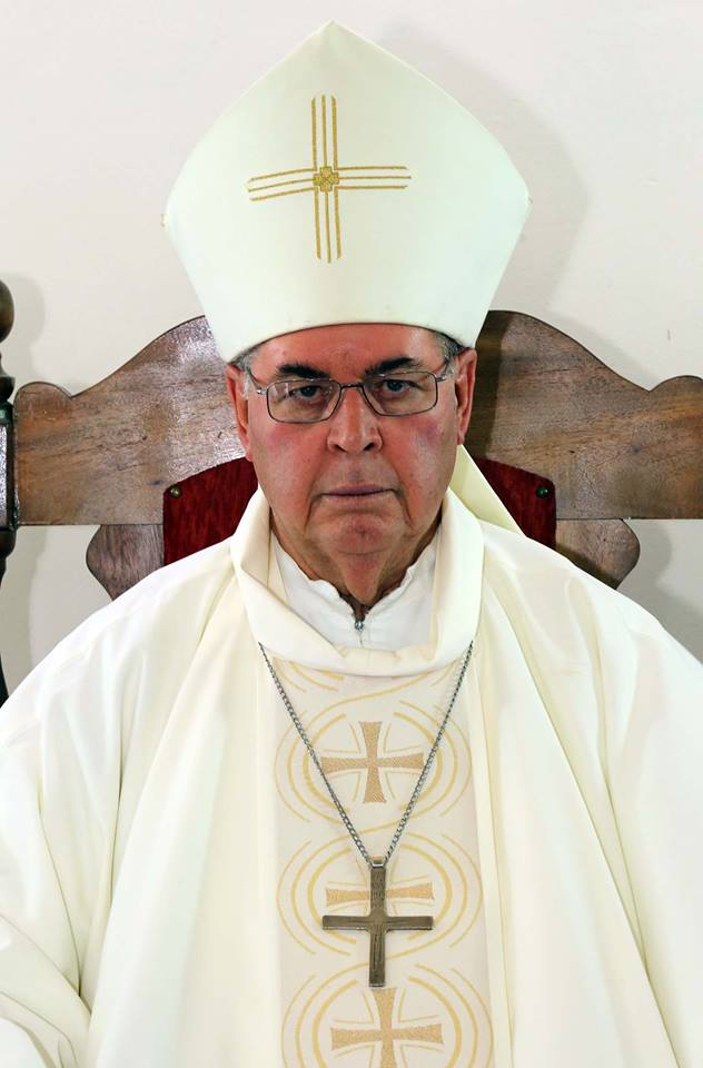 Dom Mauro Montagnoli in São Roque Church in Ipiaú in Diaconate Ordination of Clayton and James on November 1, 2015.